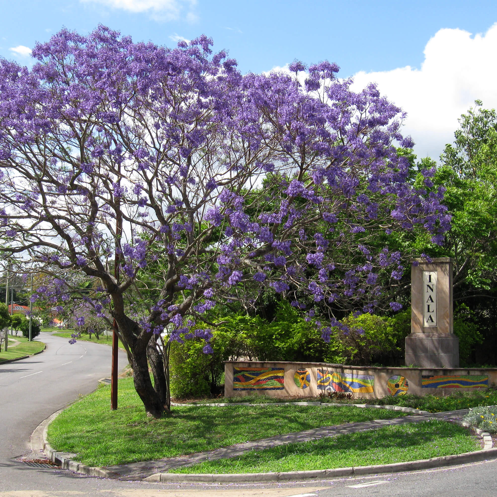 Boundary sign of the suburb of Inala, mosaic mural and a flowering jacaranda tree at the corner of Tamarind Street and Archerfield Road